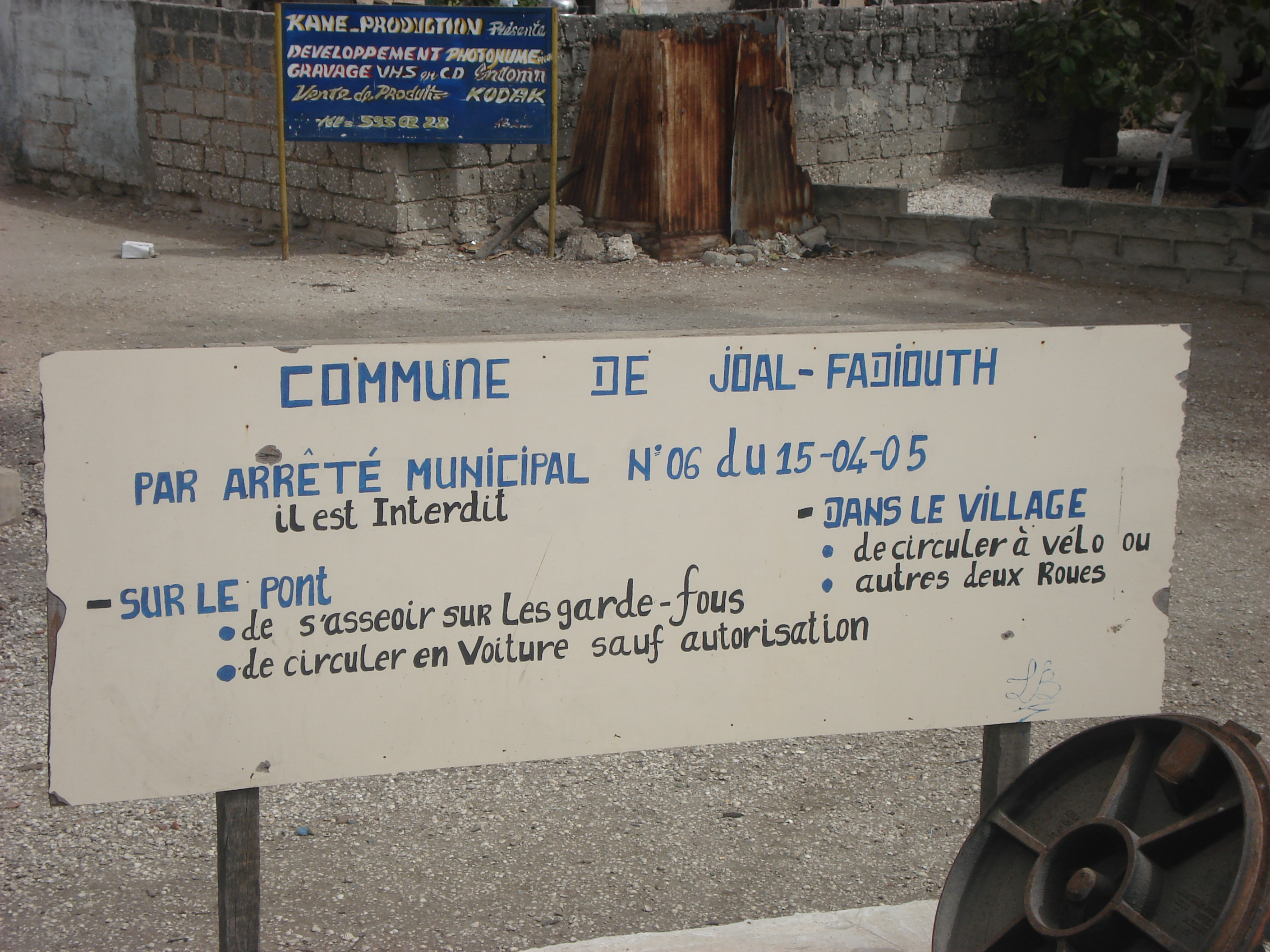 Sign upon entering the island of Faddiouth in Senegal.